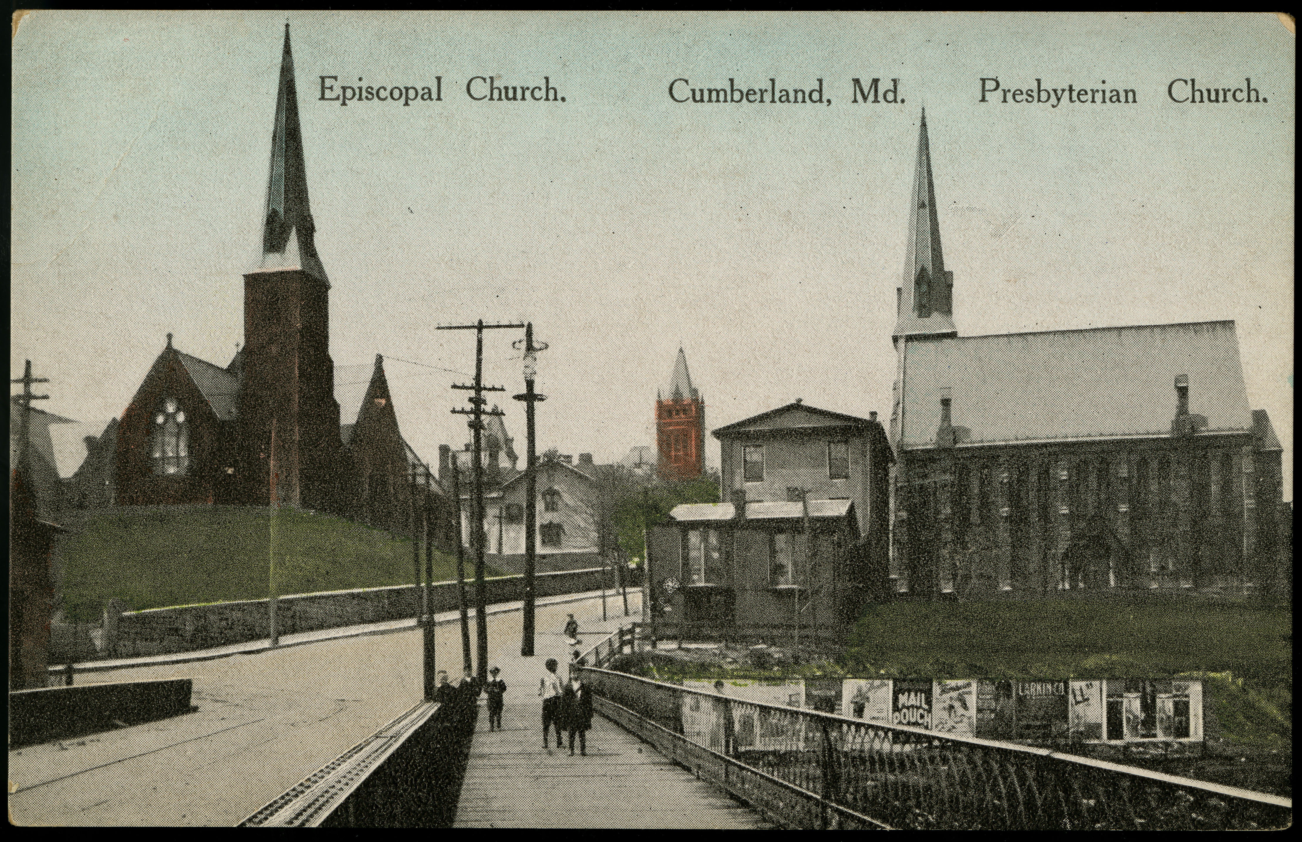 Presbyterian church in Cumberland, Maryland from a pre-1923 postcard From RG 428, Postcard Collection, Presbyterian Historical Society, Philadelphia, Pennsylvania.